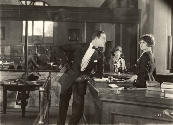 Louis Calhern and Claire Windsor in The Blot (Lois Weber Productions, 1921).